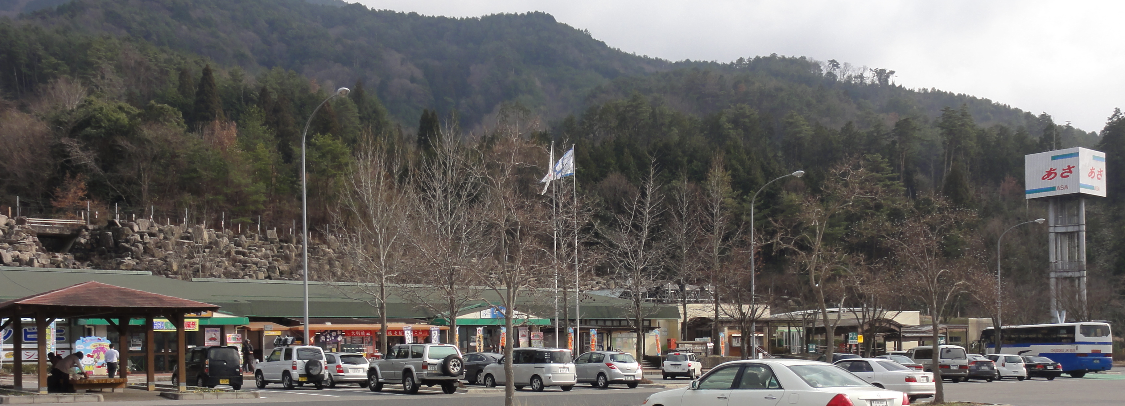 Asa Service Area kudari,Hiroshima prefecture, Japan